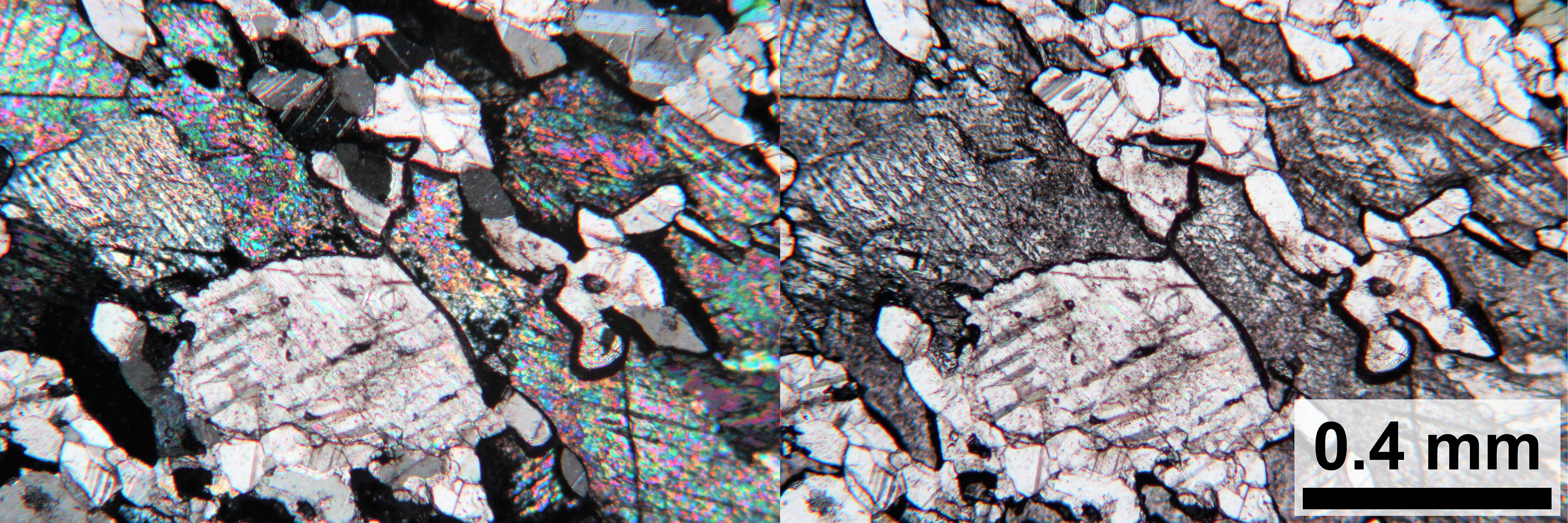 Etched and stained thin section. Photomicrograph from thin section 501/M3 in cross and plane polarised light: the brighter mineral grains in the picture are dolomites, and the darker ones calcite grains.